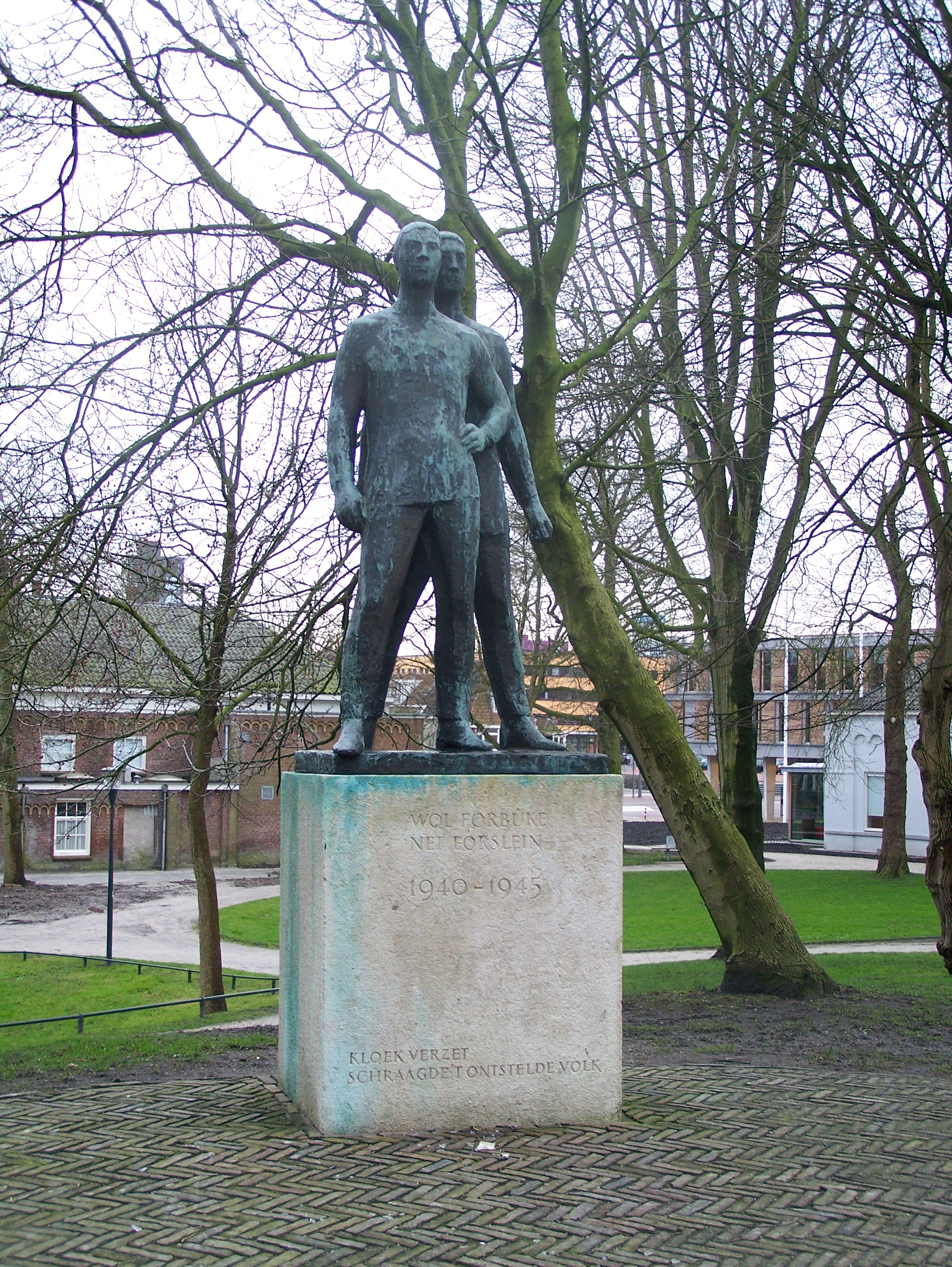 WWII Memorial "Wol forbûke net forslein 1940 - 1945" (=Frisian for (I think) "Hidden but not defeated 1940-1945"). The memorial was made by Auke Hettema in 1955 and placed at the Prinsentuin in Leeuwarden. One figure represents the astounding of the Frisians, the other figure represents the rising of the resistance.